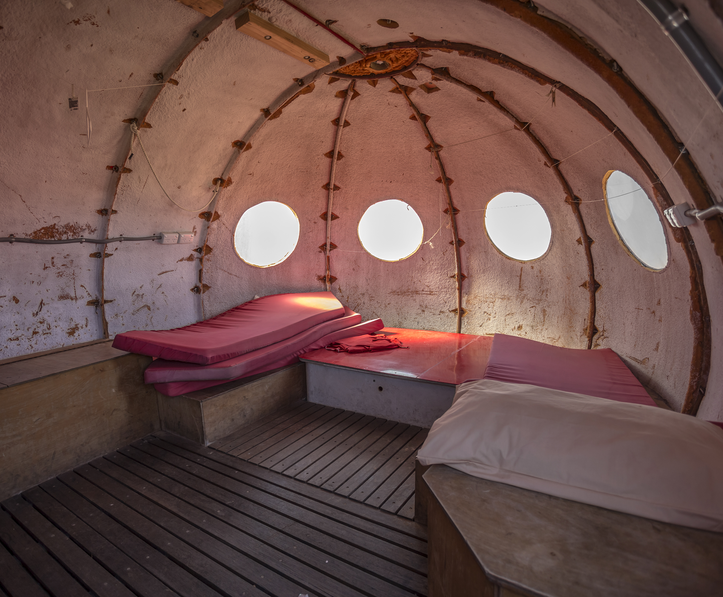 Interior of Igloo satellite cabin at Law-Racoviță Station, Antarctica